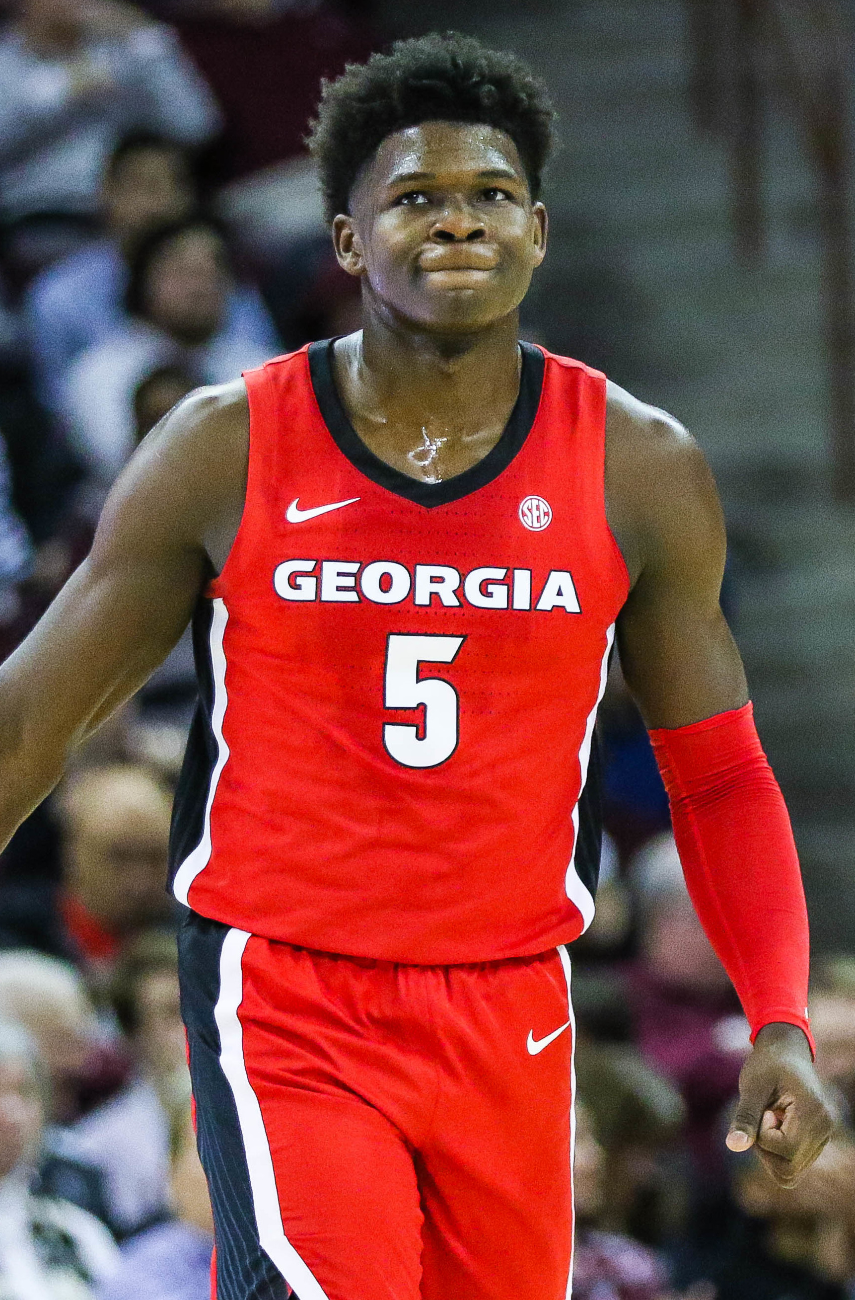 Photo by Katie Dugan